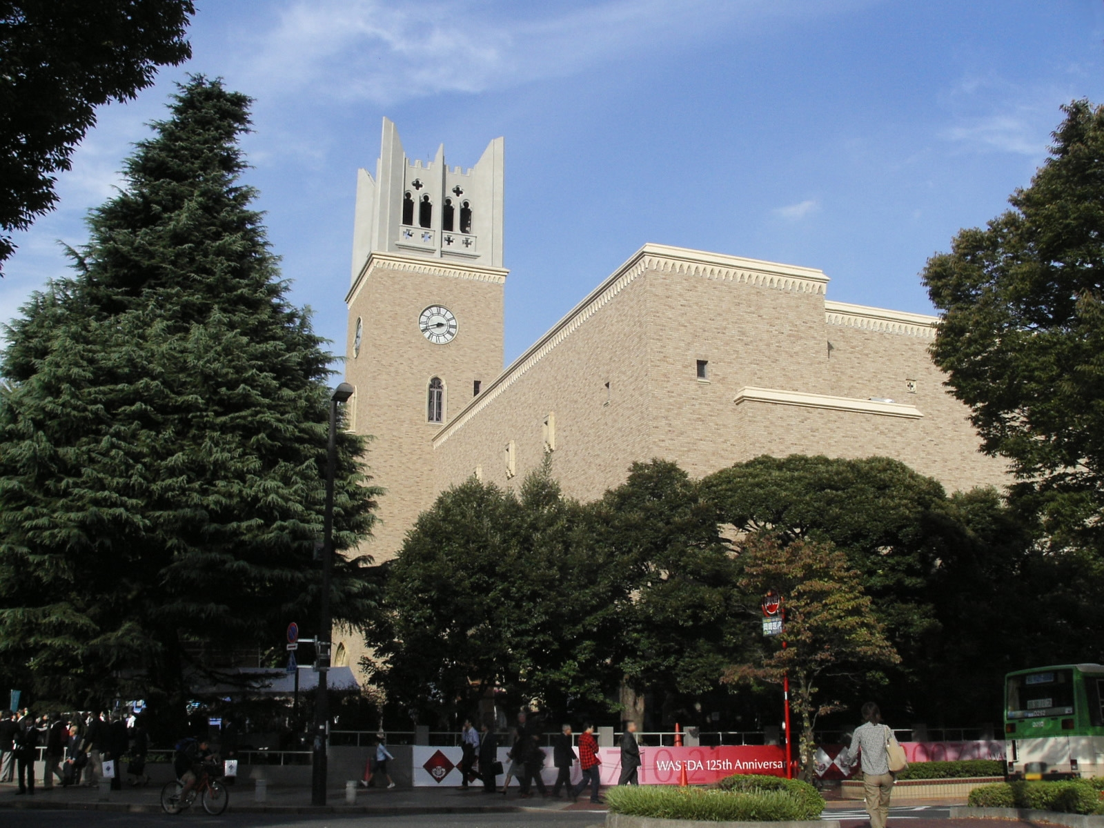 “Okuma lecture hall” Waseda University “Okuma lecture hall” Waseda University address = 1-6-1, Nishiwaseda, Shinjuku-ku, Tokyo